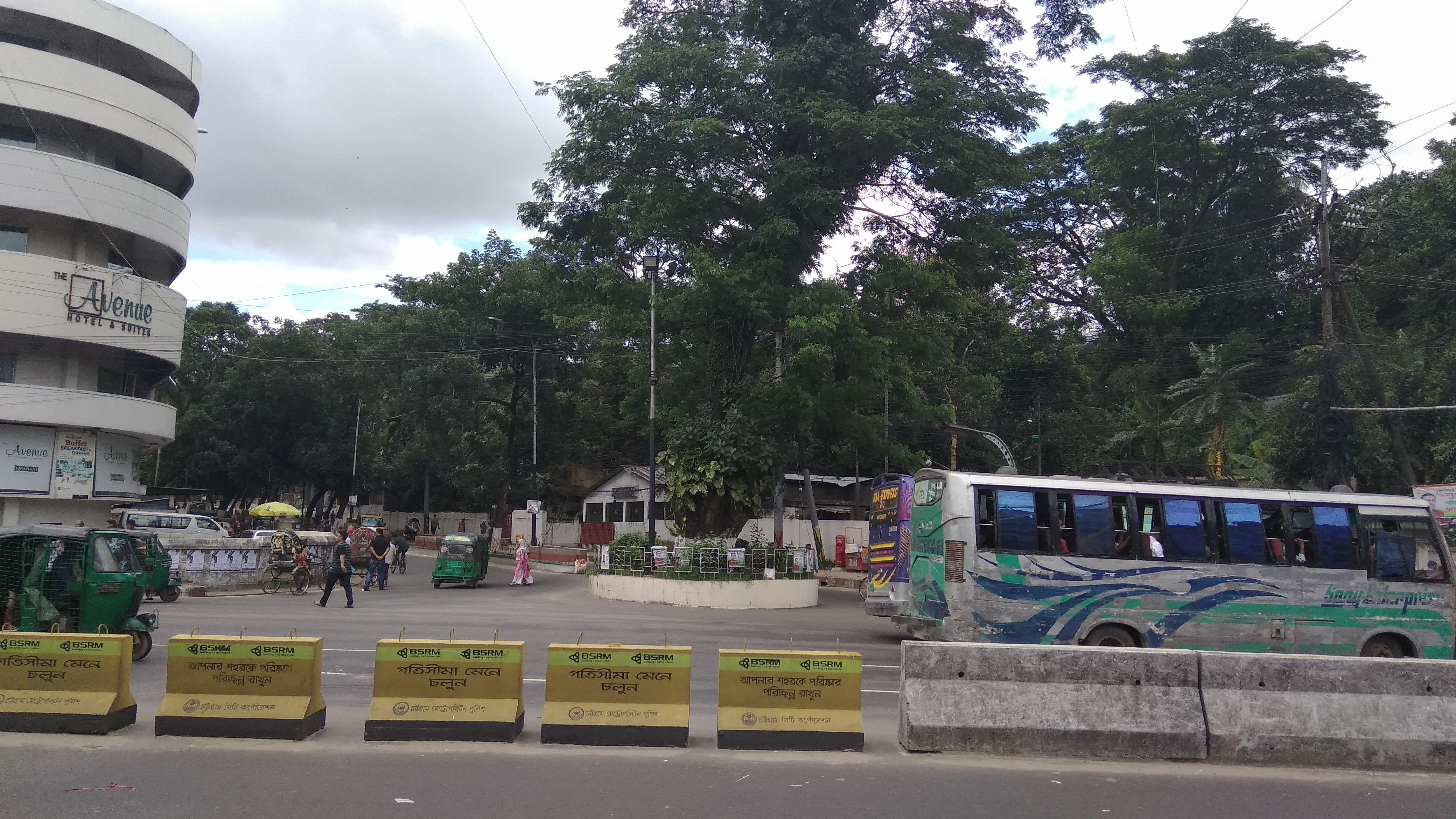 This is an image of Lal Khan Bazar area in Chittagong.